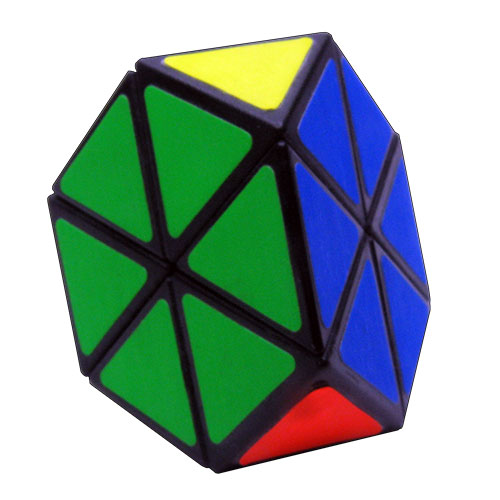 A Tetraminx puzzle. It's just a slightly simpler version of the Pyraminx, which isn't all that difficult itself.